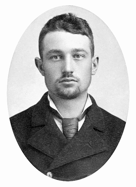 Portrait of Louis Lingg, one of the defendants who was charged with murder in the Haymarket Anarchists Trial, 1886.